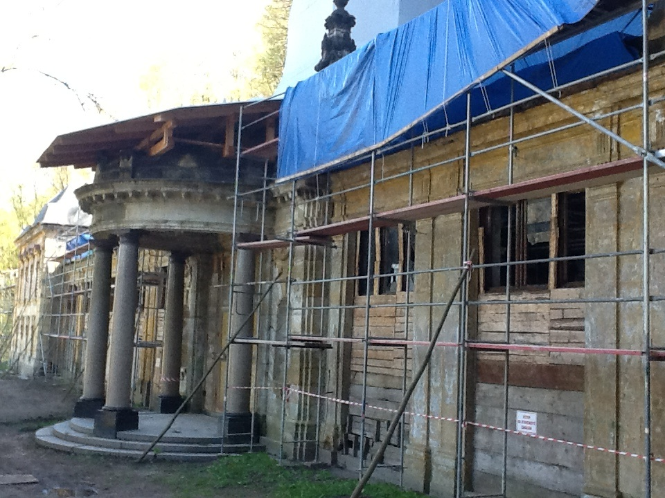 Vstup divadla v Kyselce 2014 2